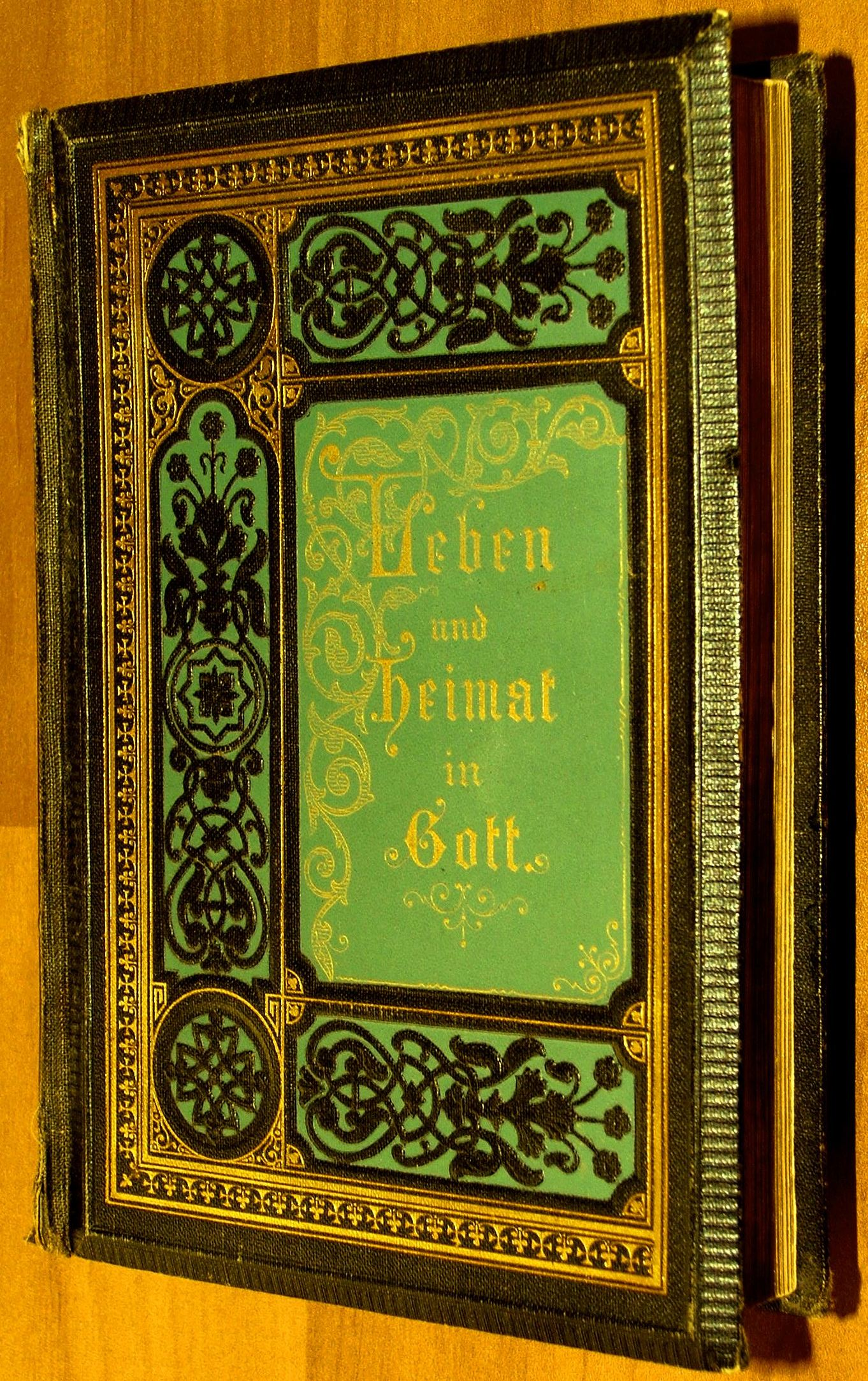 Leben und Heimat in Gott-Friedrich Julius Hammer, bildhaft 708 pages and pages, with 4 additional 802-page first edition of the book is available in your own bookshelf. pictures in my library that was taken from the book